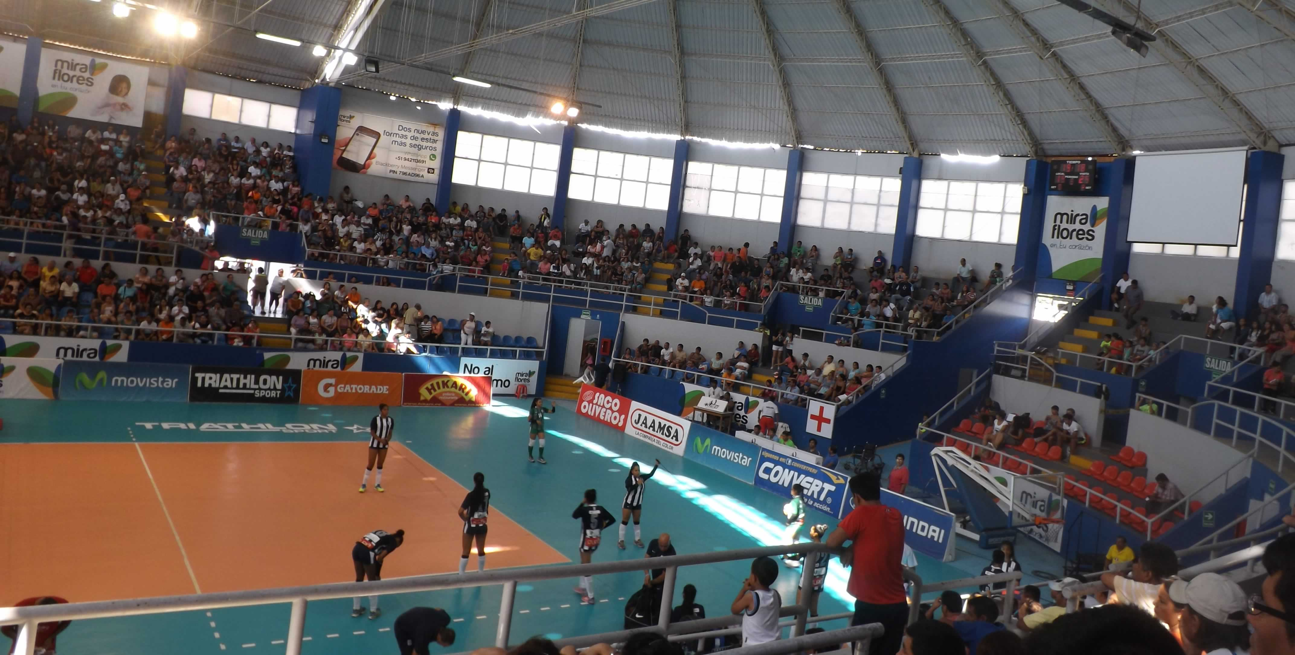 Coliseo del Complejo Deportivo Niño Héroe Manuel Bonilla, en Miraflores.